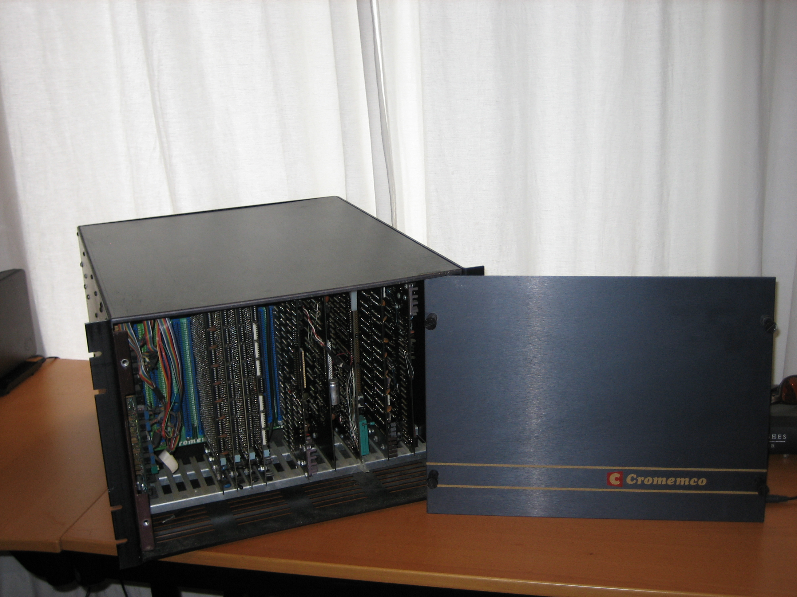 Cromemco Z2